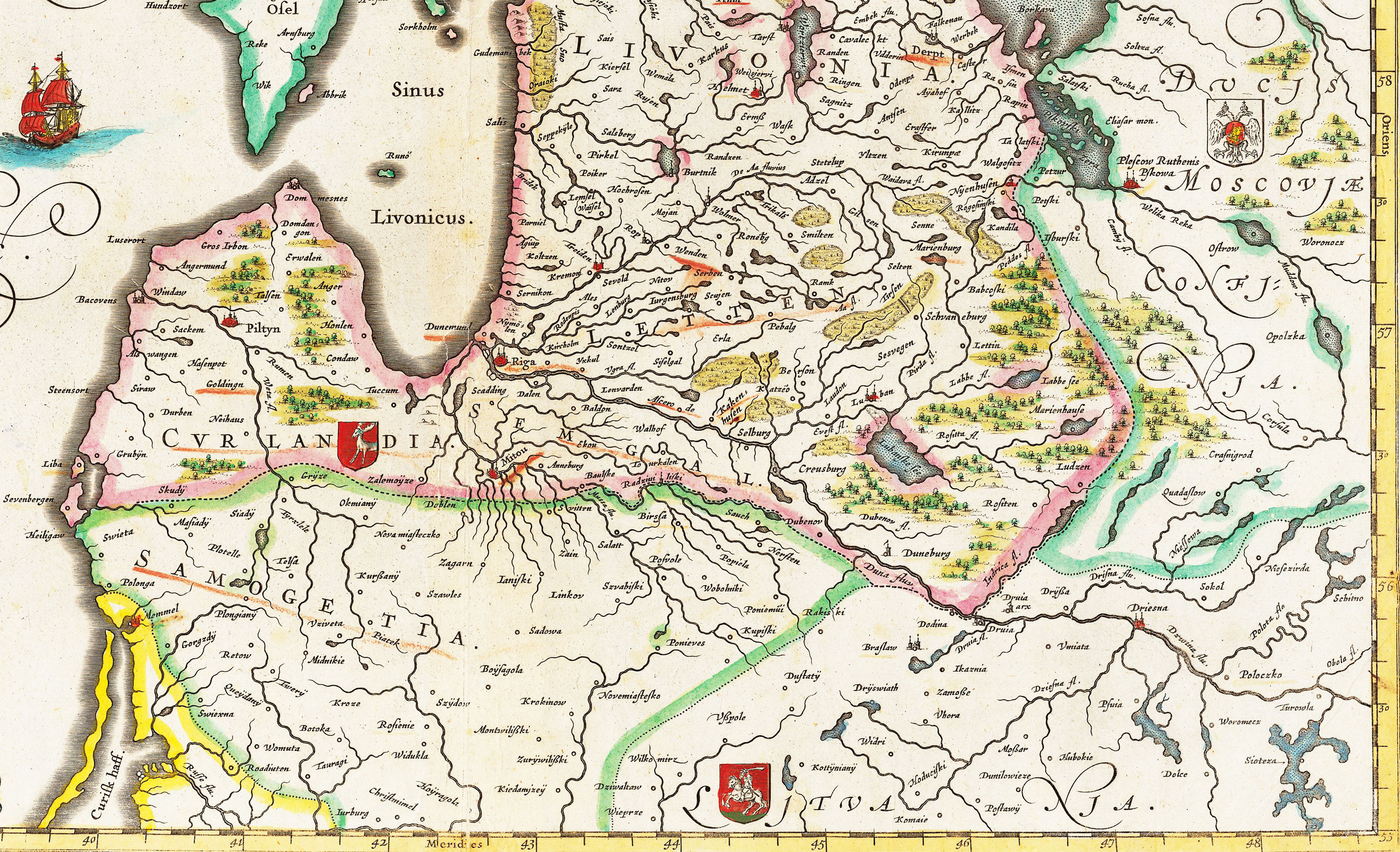 Samogetia on a 1662 map of Livonia.